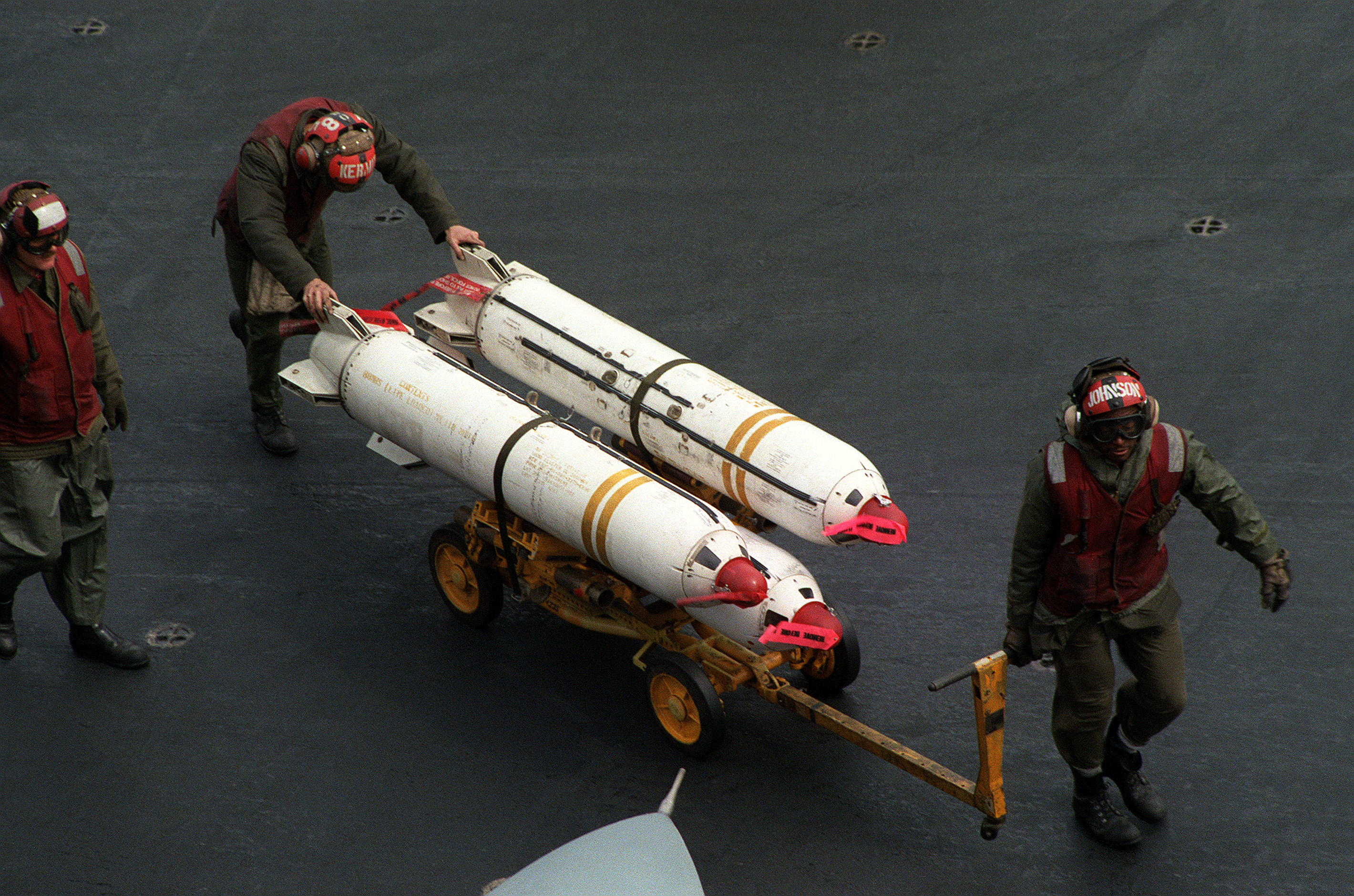 U.S. Navy aviation ordnancemen transport Mark 20 Rockeye II cluster bombs across the flight deck aboard the aircraft carrier USS Saratoga (CV-60) on 22 March 1986. On 15 April 1986 Saratoga´s aircraft participated in "Operation El Dorado Canyon", the bombing of Libya.